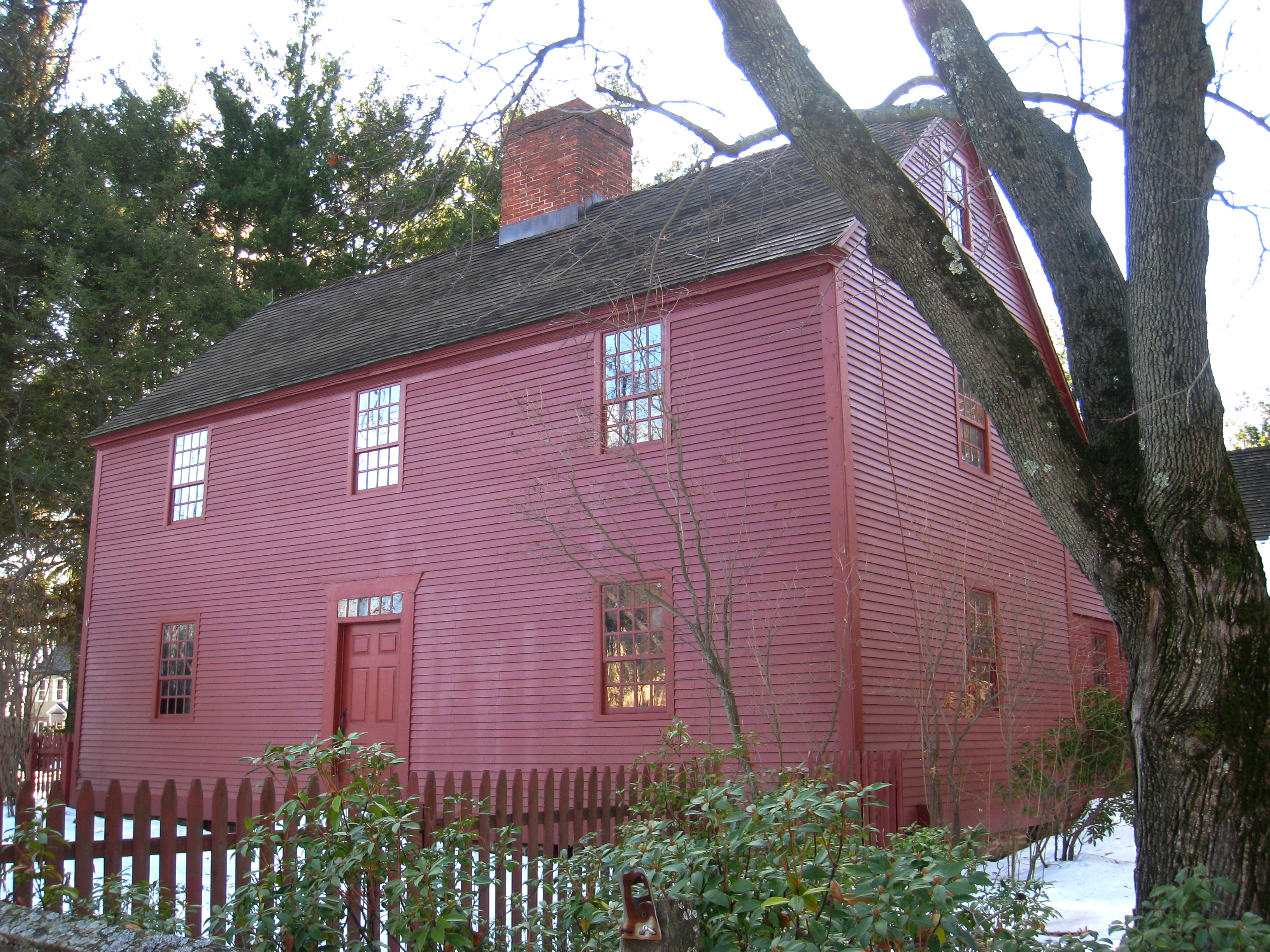 Noah Webster House, West Hartford, Connecticut, USA - front facade.